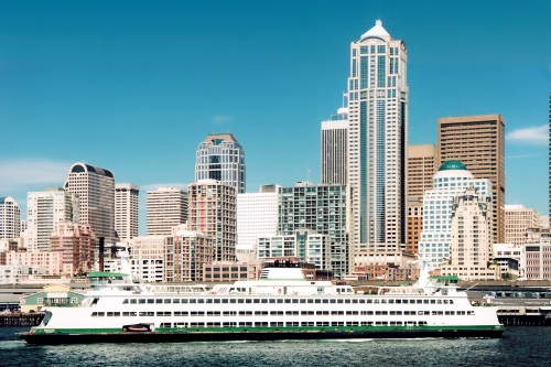 A Washington State Ferry arrives in Downtown Seattle, Washington, USA.